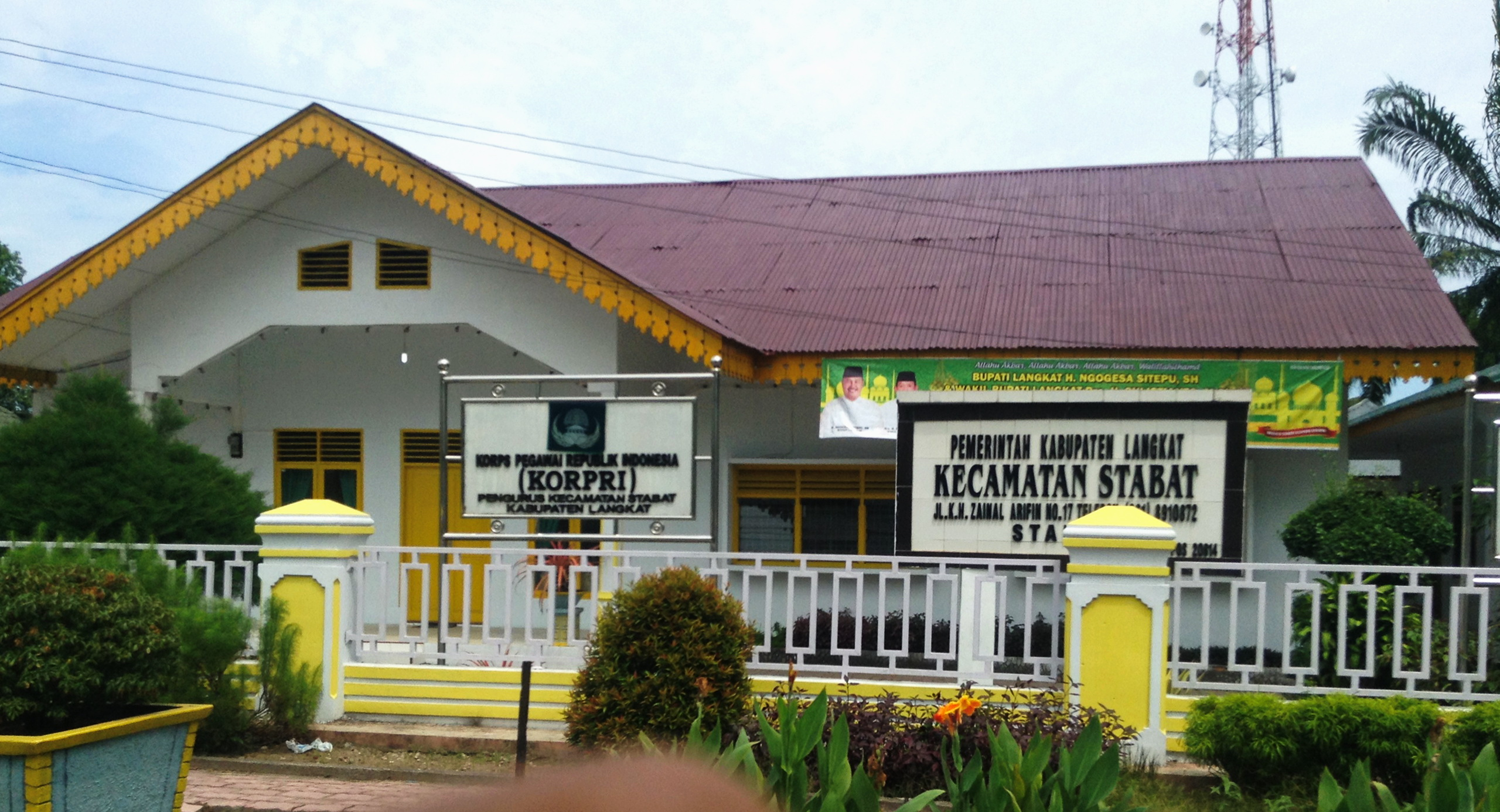 Office of Stabat, Langkat, North Sumatra, Indonesia.